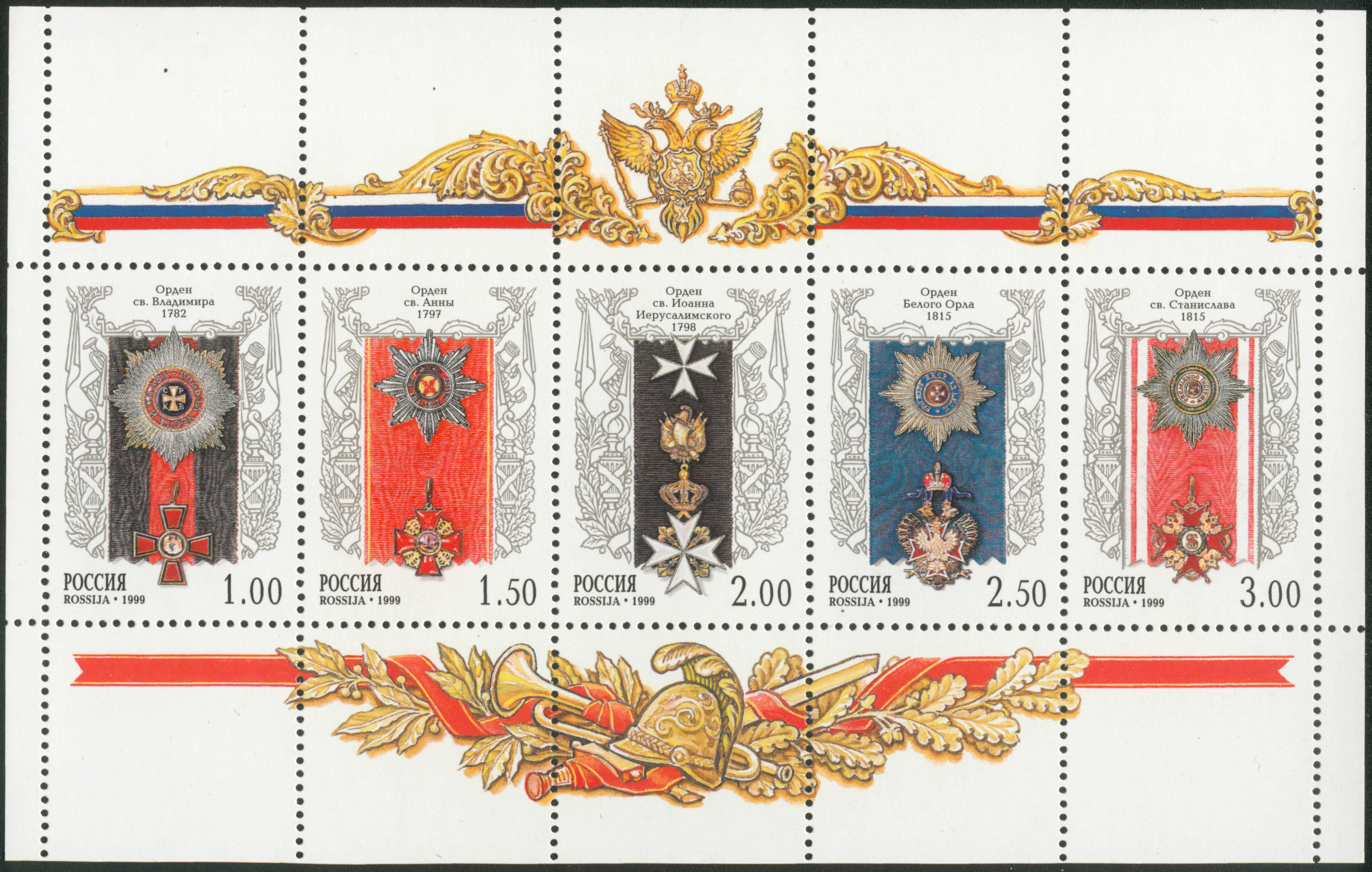 Stamps of Russia «History of the Russian State (continuation of series). Medals of Russia», 1998